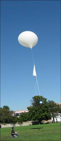 HABET balloon being launched. HABET (High Altitude Balloon Experiment in Technology) is a program at Iowa State University, Iowa, USA, which builds, launches, and recovers balloon payloads to near-space altitudes throughout the year. The balloons used are "weather balloons" of the type used in weather balloons. This image shows a "stack", consisting of balloon, parachute, and instrument package payload suspended on a line being launched. See Iowa State University HABET page.